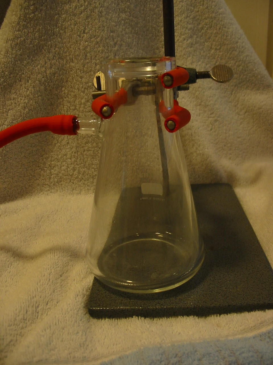 250ml suction vacuum flask